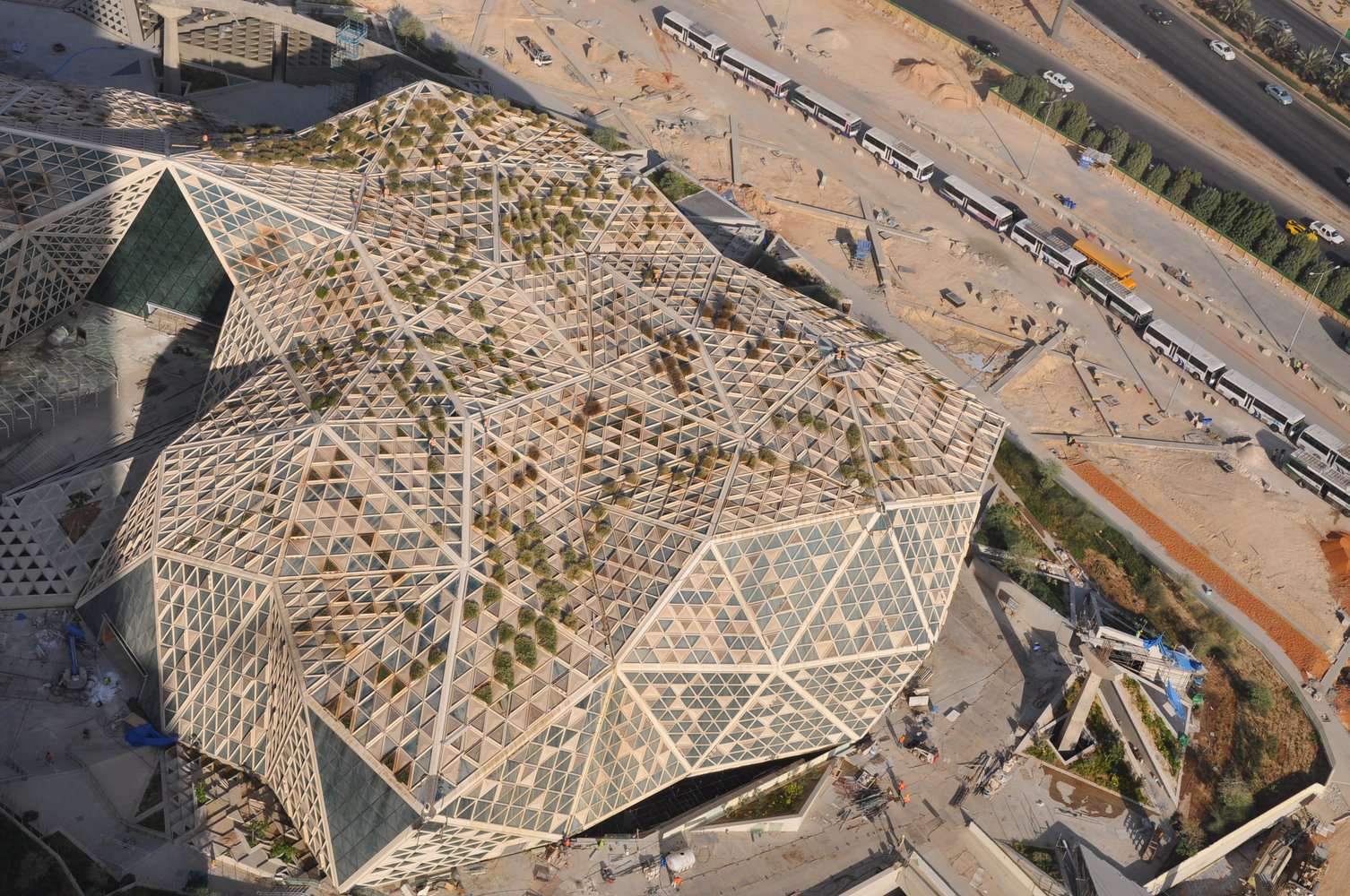 KAFD Conference Center